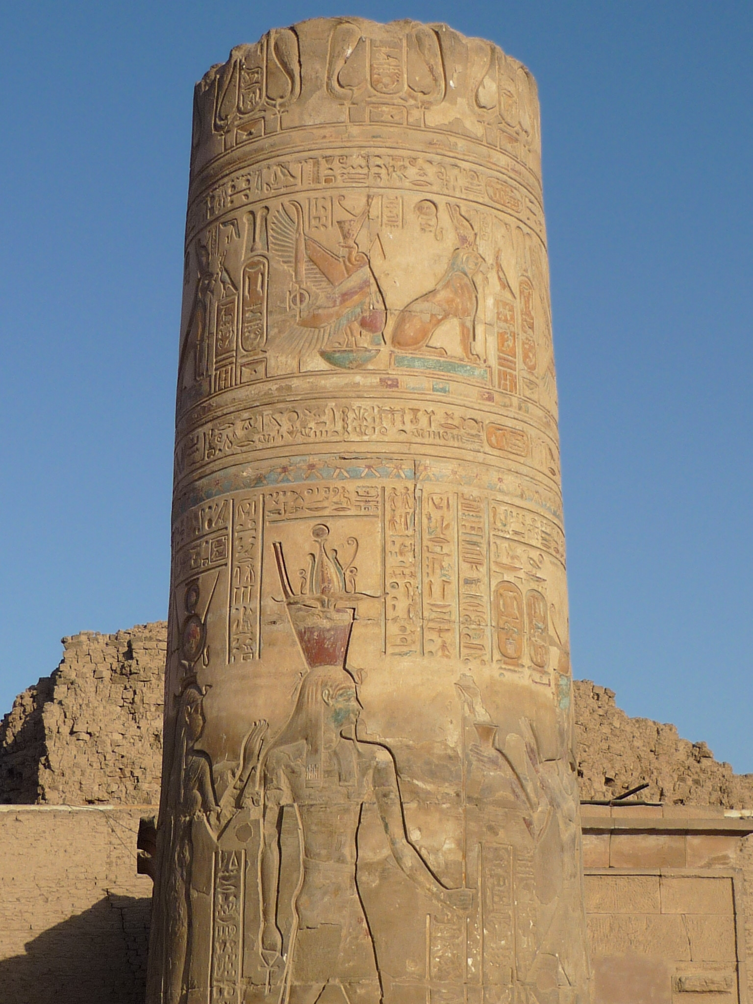 Column, Kom Ombo Temple, Egypt. Tiberius.